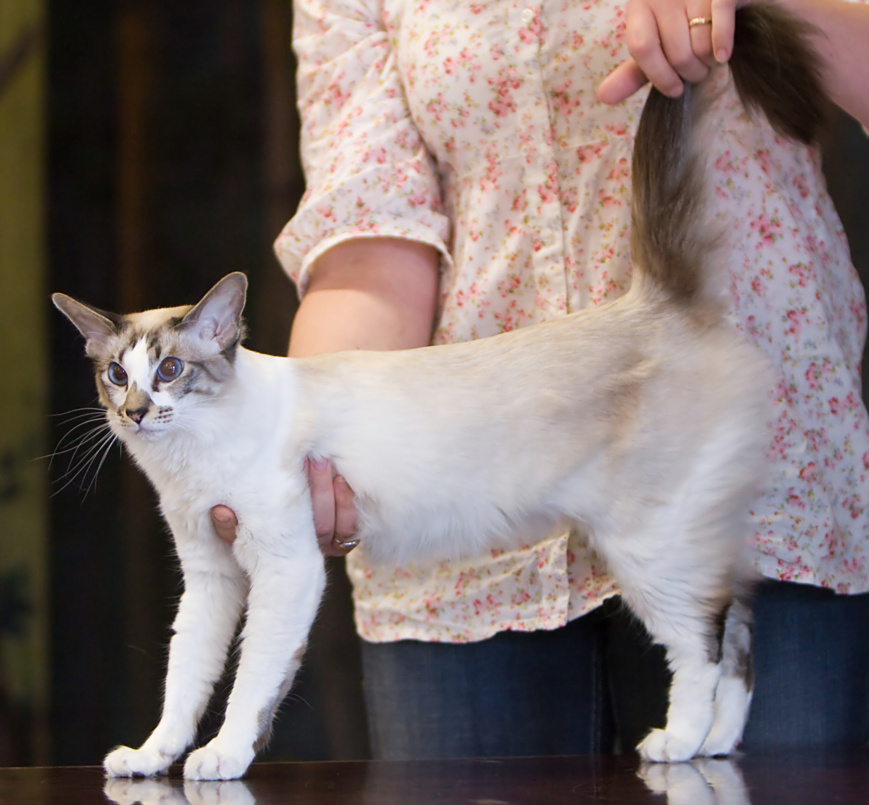 Skazki Esfir, seychellois at Nummela Cat show